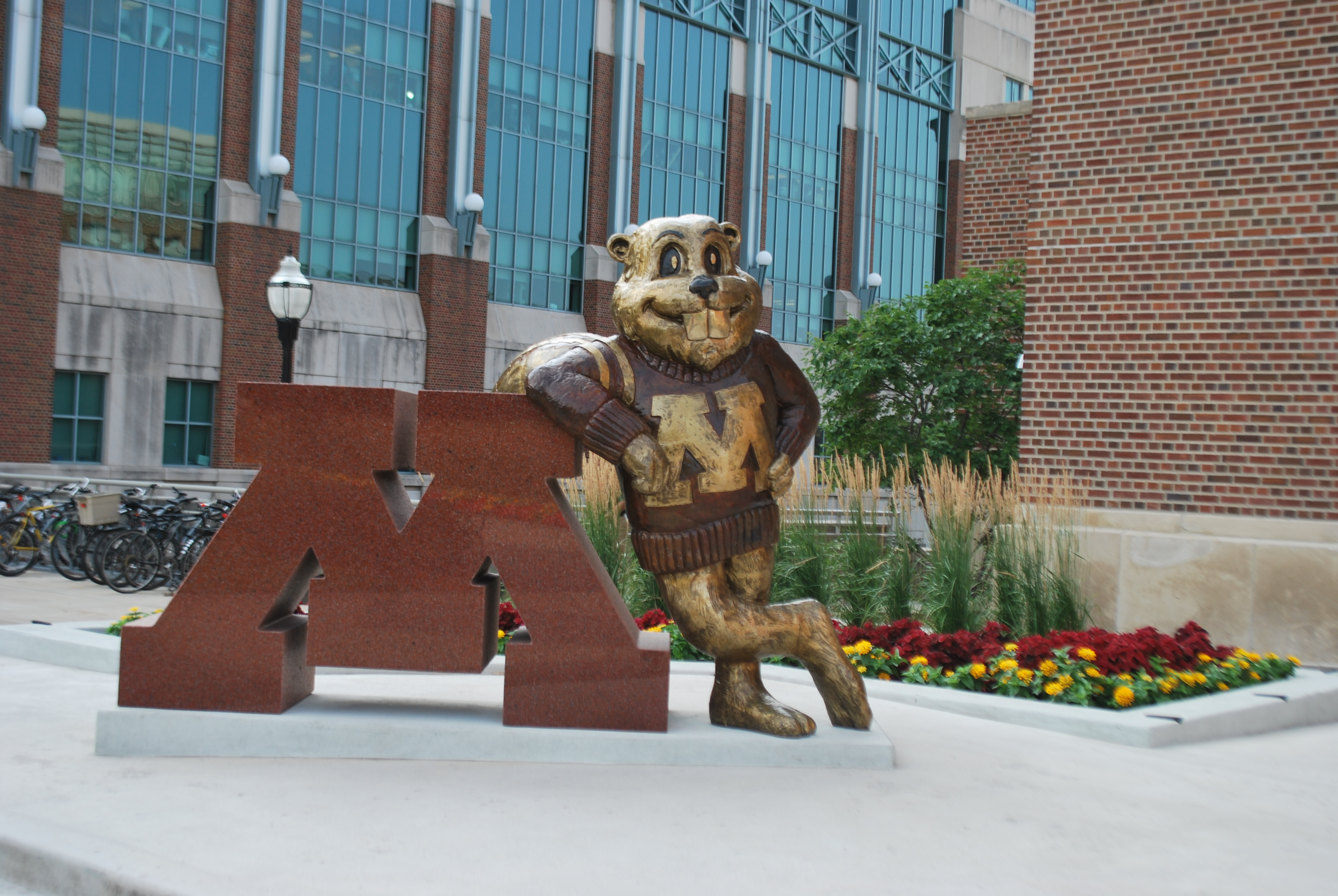 Goldy Gopher (2015) is located outside the University of Minnesota's Coffman Union.